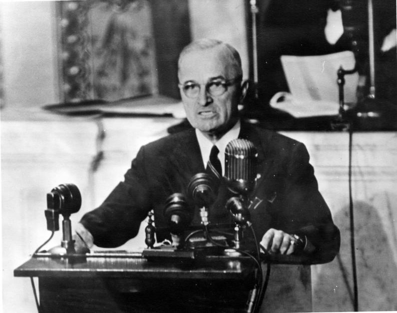 President Harry S. Truman addressing a joint session of Congress asking for $400 million in aid to Greece and Turkey. This speech became known as the "Truman Doctrine" speech. Subjects (ARC): Truman, Harry S., 1884-1972 People: Truman, Harry S., 1884-1972 Accession number: 59-1252-3 Restrictions: Unrestricted Physical Size: 8x10 inches (21x26 cm) Color: Black & White Cropped: no